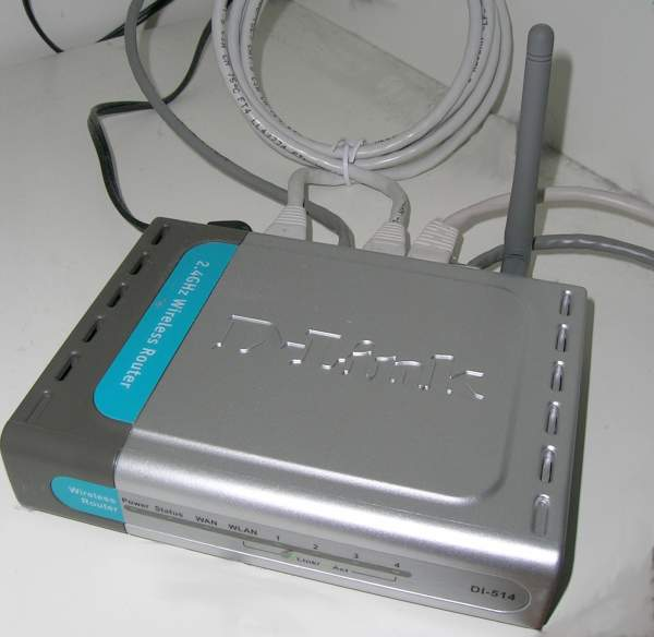 D-Link DI-514 802.11b wireless access point/router.